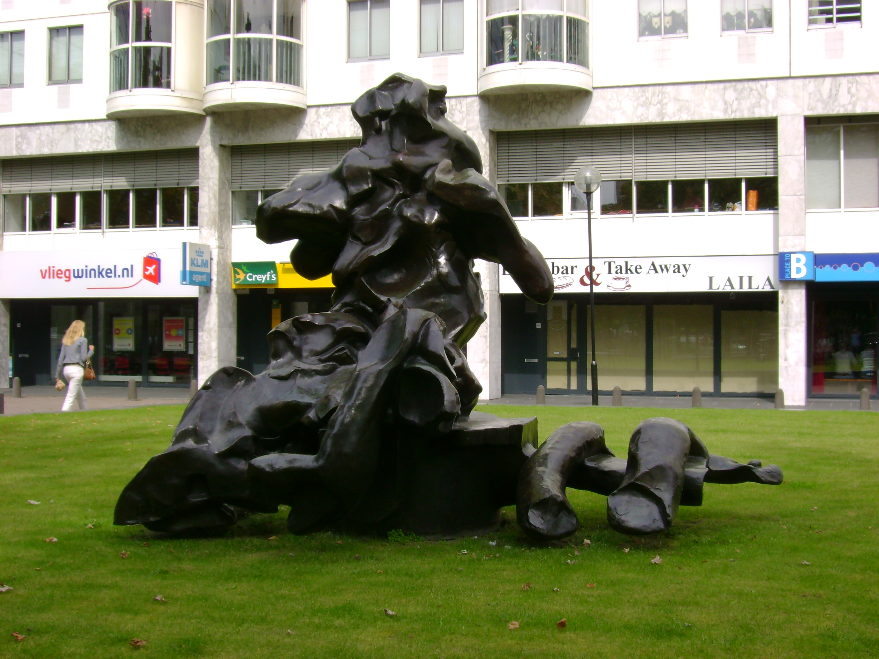 sculpture Seated Woman by Willem de Kooning in Rotterdam/The Netherlands